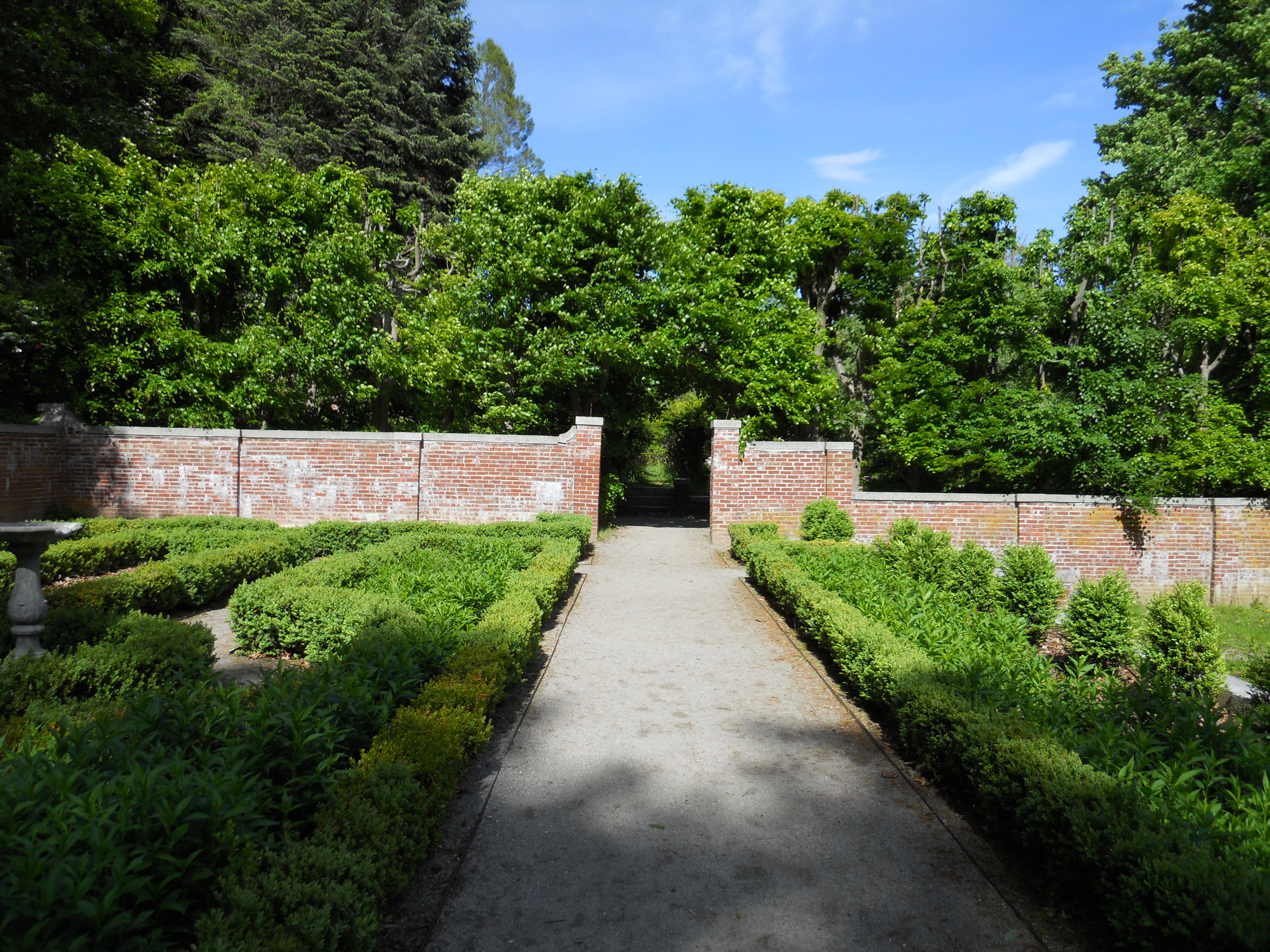 The Italian garden in early May, before any flowers have blossomed. The gate leads to the ruins of the greenhouses. The house was to the rear, the rose gardens to the right. The wall of trees in the background grew from an original line of small ornamental trees.